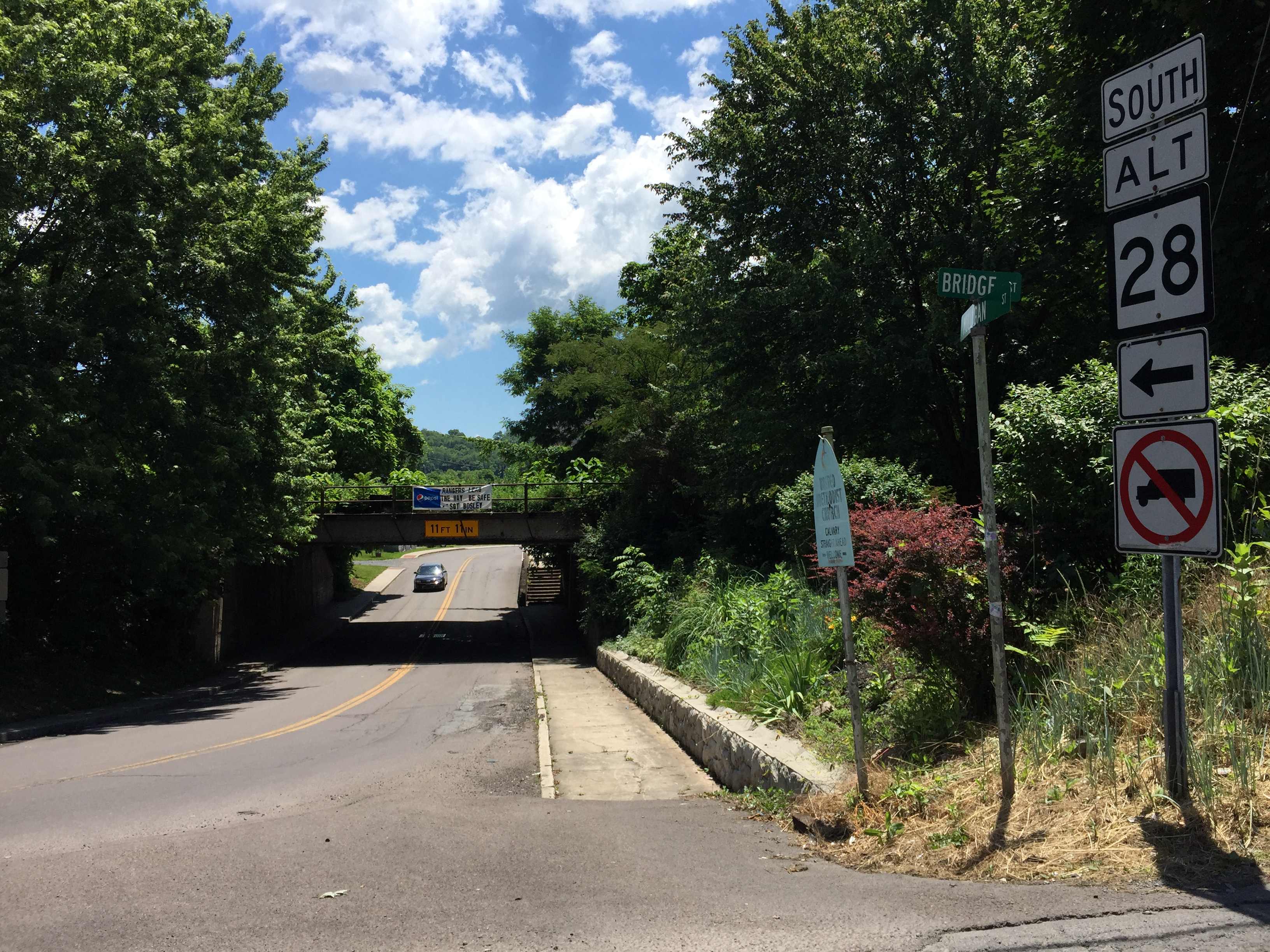 View south along West Virginia State Route 28 Alternate (Mulligan Street) at Bridge Street in Ridgeley, Mineral County, West Virginia